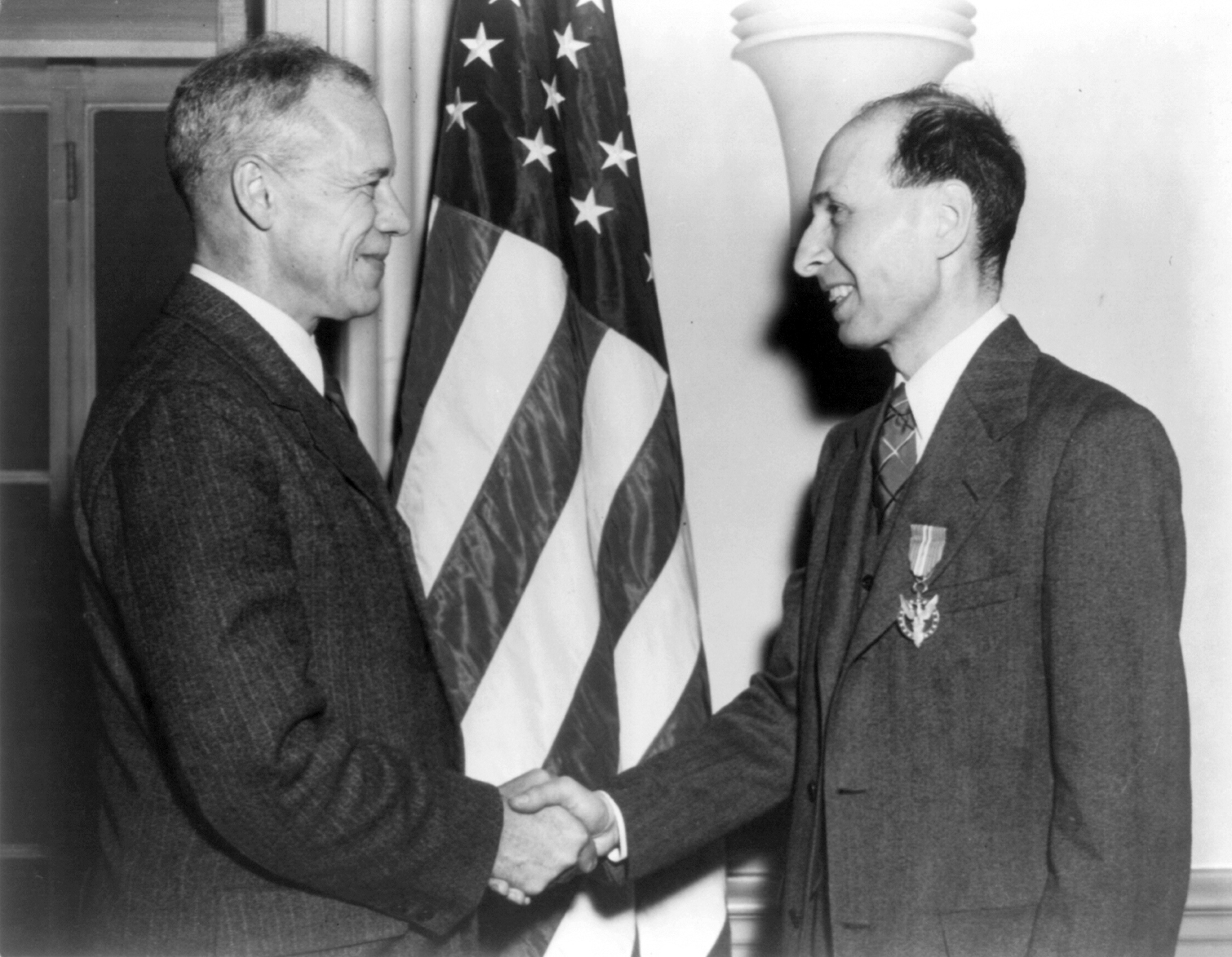 Dr. Eugene Paul Wigner receiving Medal for Merit from Secretary of War, Robert P. Patterson